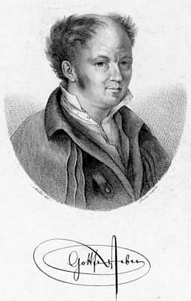 German musicologist and composer Gottfried Weber (1779-1839).